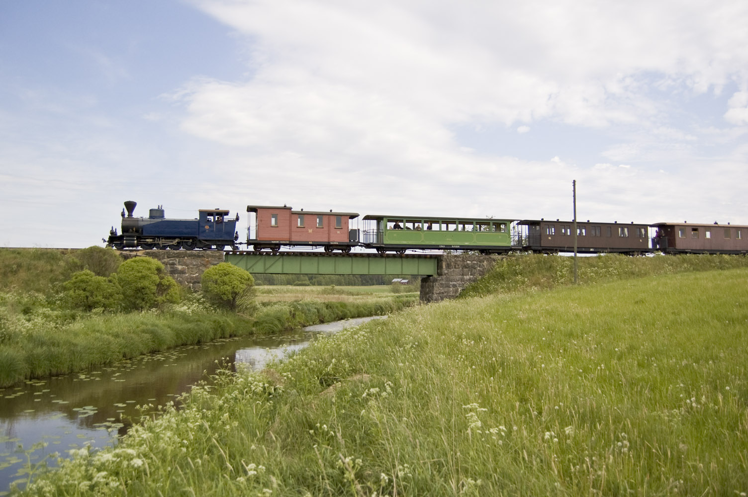 Steam-hauled museum train crossing the Jänhijoki railway bridge in Jokioinen, Finland.